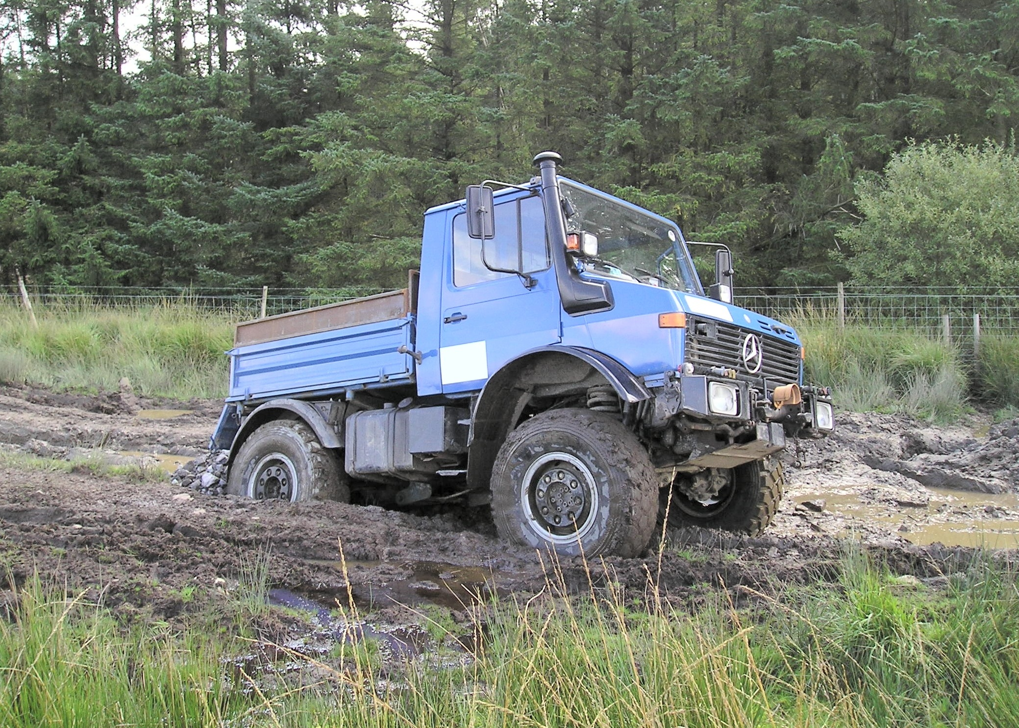 Unimog U1600 (427105).